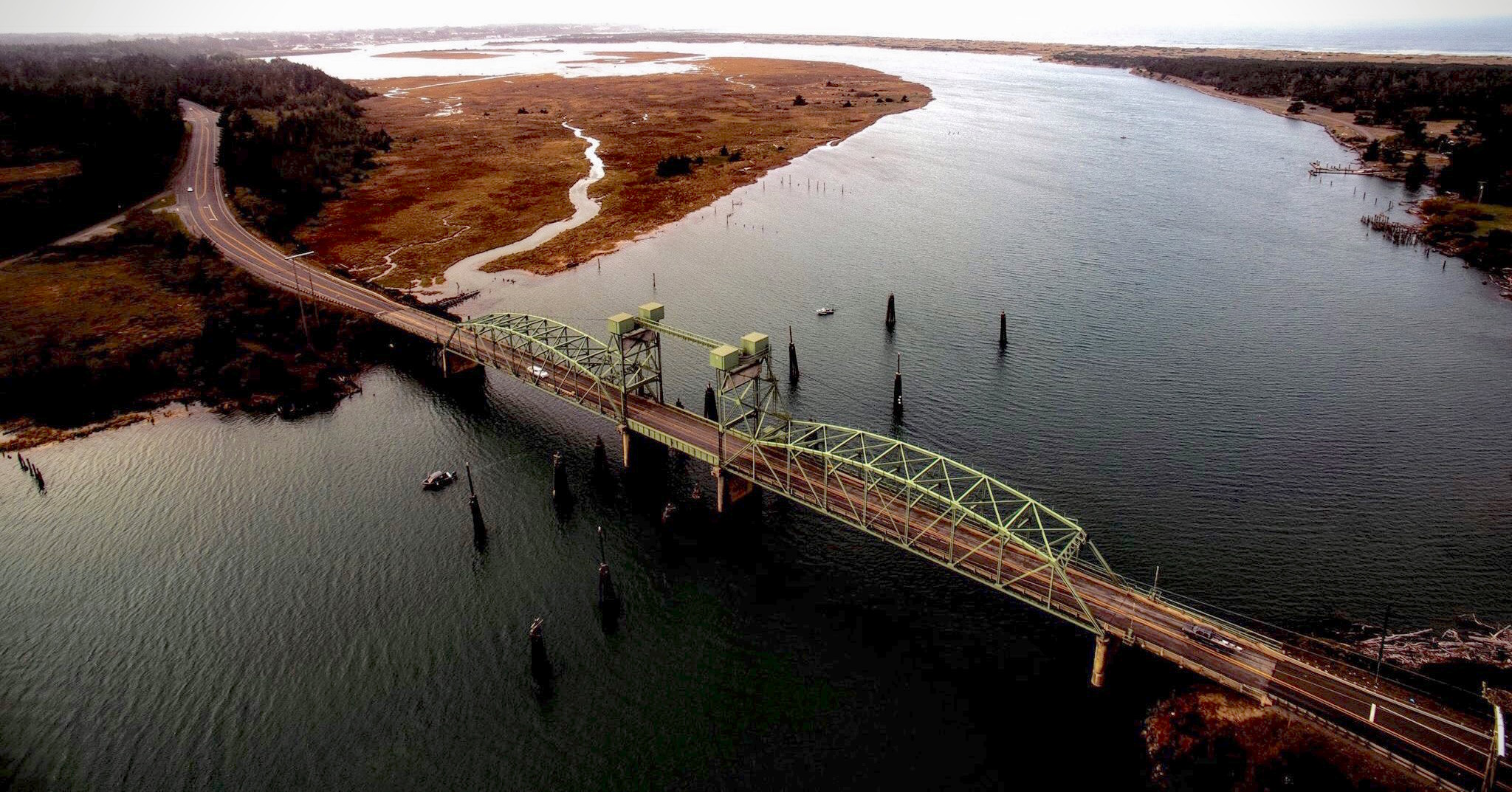 Bullards Bridge, the 1954 vertical-lift bridge that leads into the town of Bandon, Oregon, from the north.